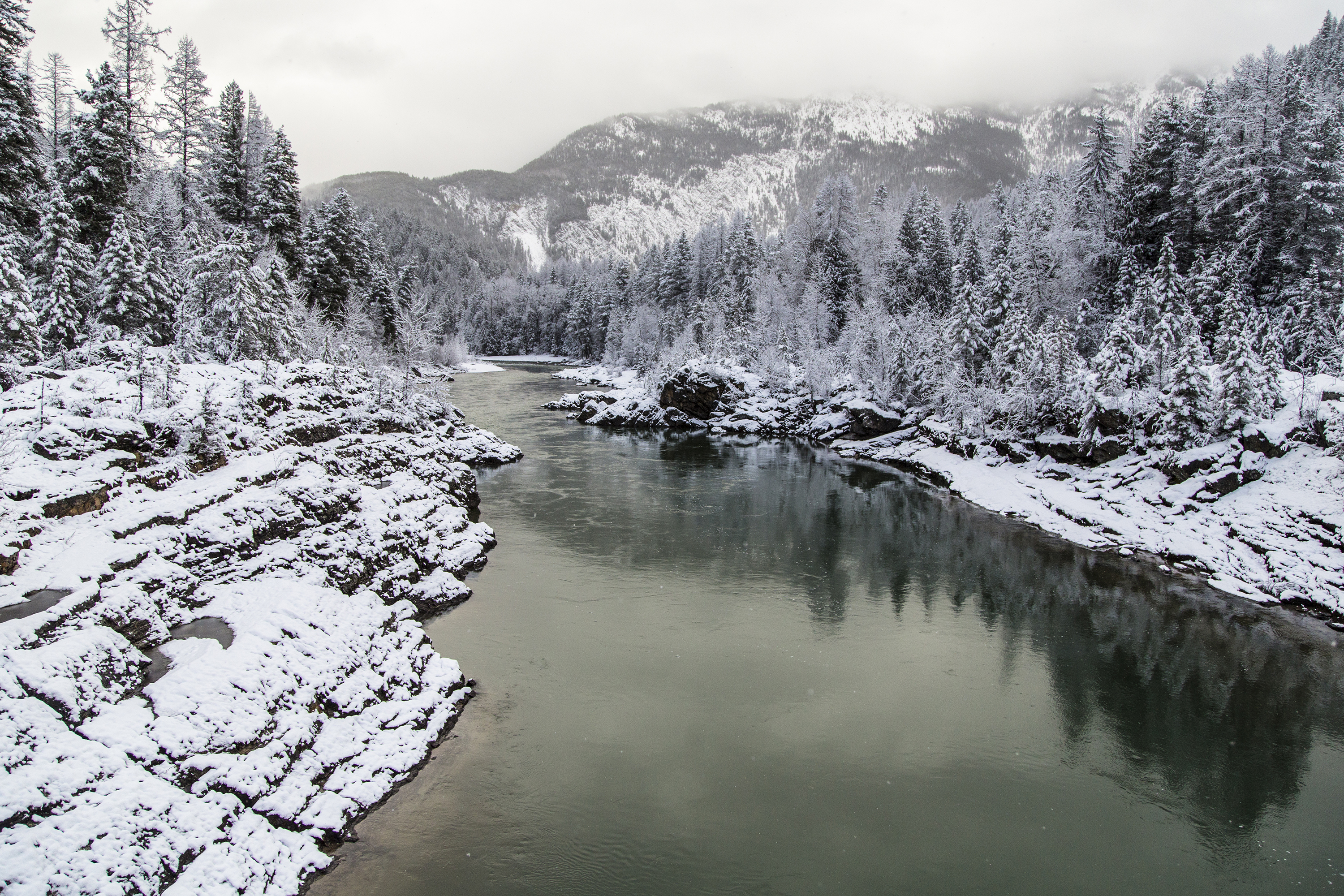 "Glacier National Park is open year-round and offers beautiful winter scenes to cross-country skiers and snowshoers."